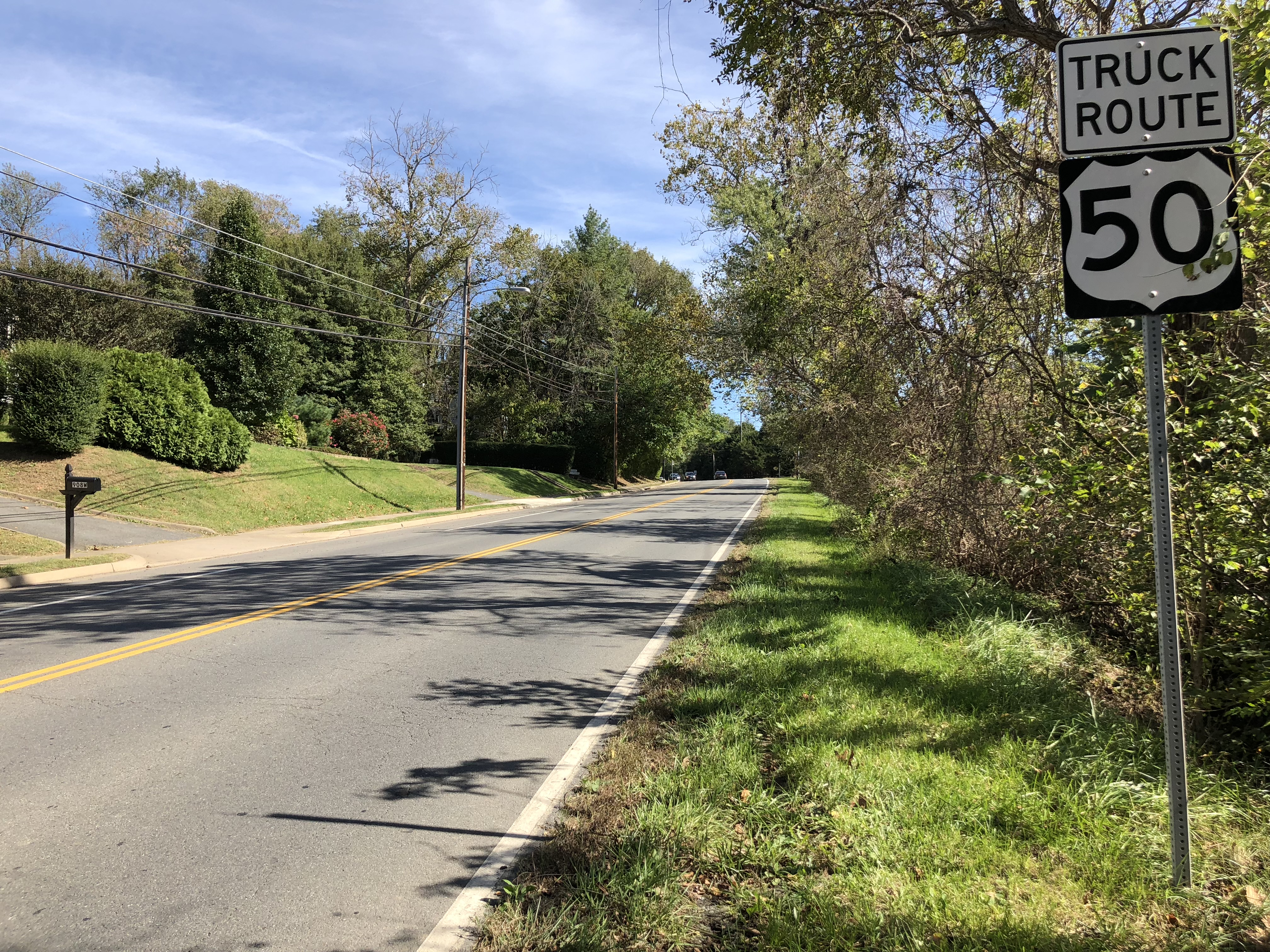 View east along U.S. Route 50 (Washington Street) between Windy Hill Road and Chestnut Street in Middleburg, Loudoun County, Virginia